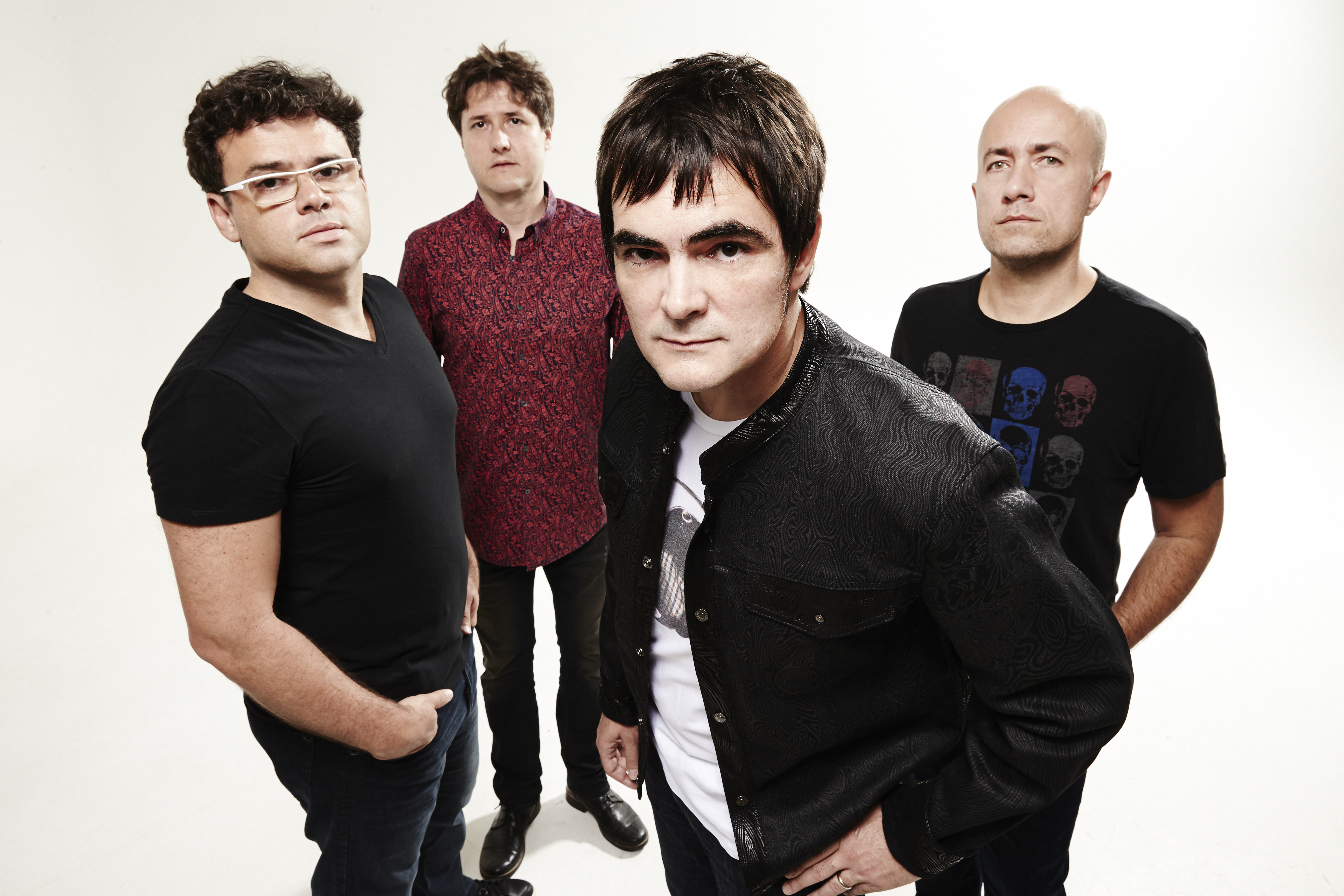 Photo by Skank